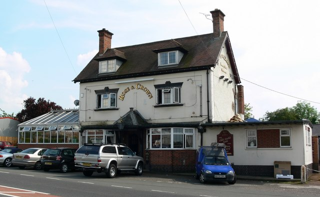 Rose & Crown, Houghton on the Hill Located along the busy A47 Uppingham Road.